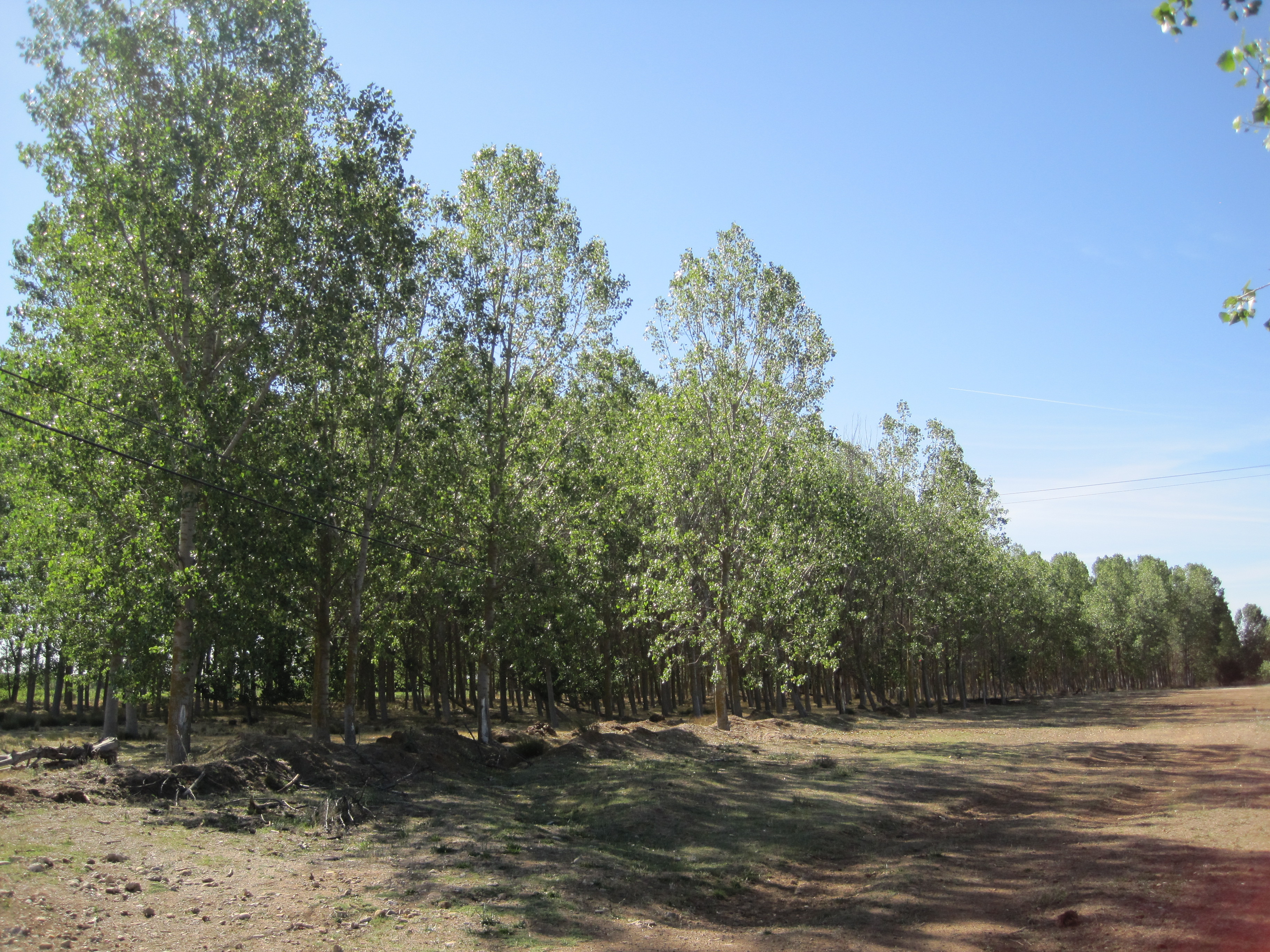 Imagen tomada en Bercianos del Páramo (León).